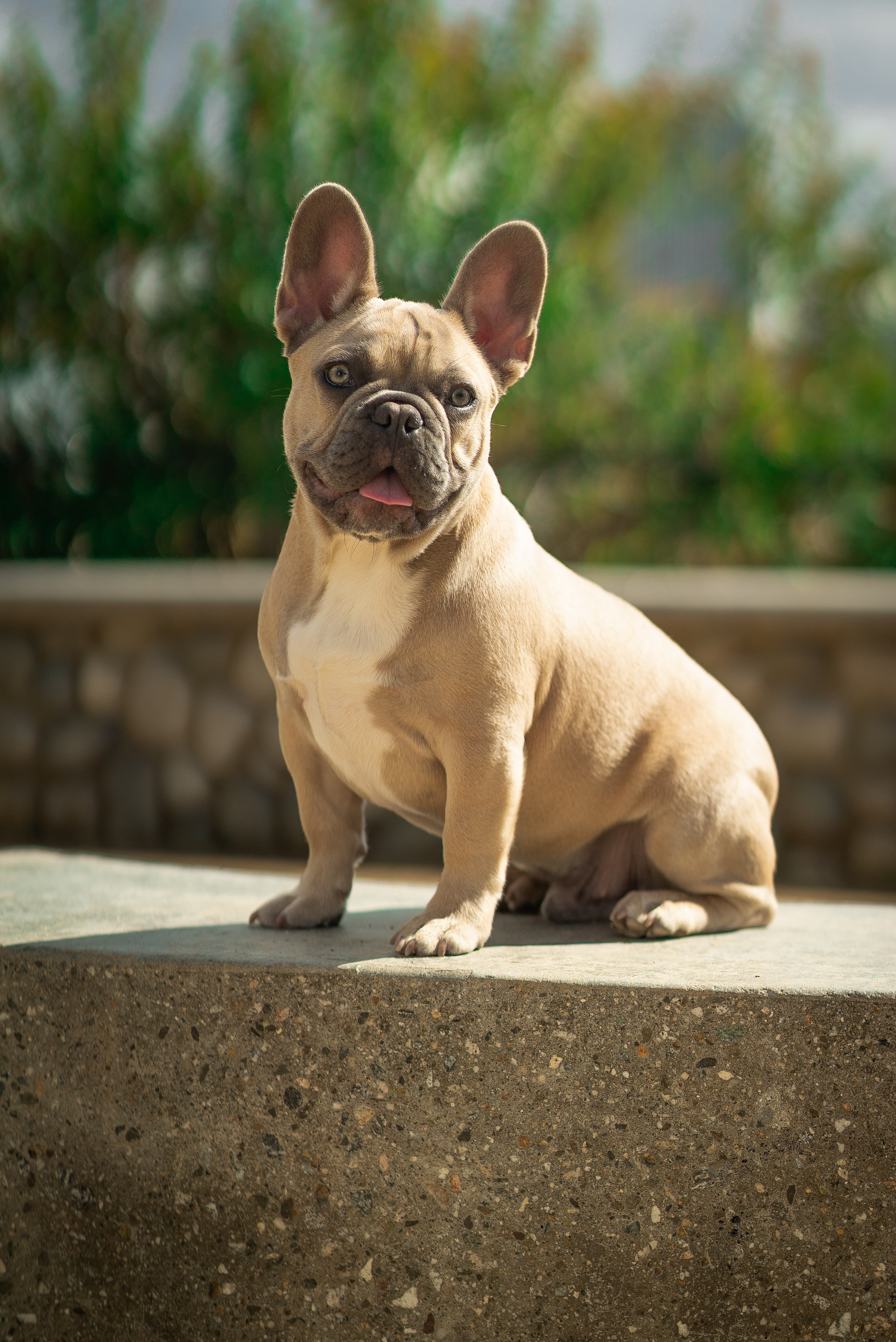 French Bulldog Aston Fresh of Freshest Frenchies in Los Angeles Park photo was taken by Supermillion Visuals